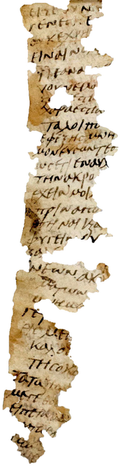 Methodius of Olympus - P.Monts. Roca 4.57 - Oratio 8 (16.72-73), 3 (14.35-40, 8.60-61, 9.18-19)